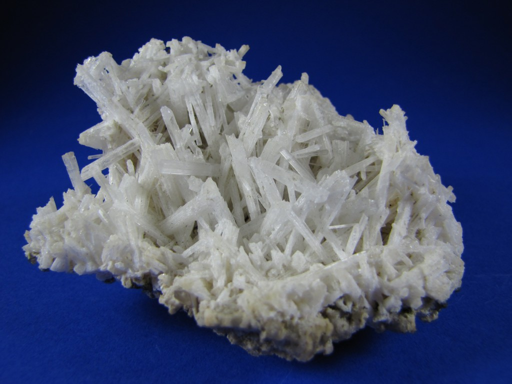 Scolecite (Size: 9 x 6 x 9 cm) Locality: Sattelkar, Gosskopf, Obersulzbach valley, Hohe Tauern, Salzburg, Austria Original description: A cluster of well positioned scolecite crystals